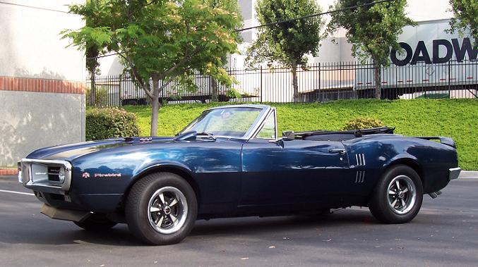 Pontiac Firebird 400 convertible 1967